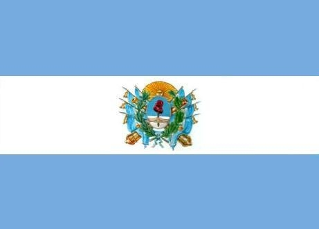 Flag of the State of Buenos Aires, a secessionist republic resulting from the overthrow of the Argentine Confederation government.